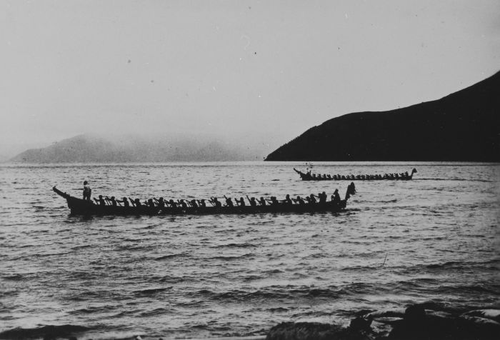 Batak proas on Lake Toba